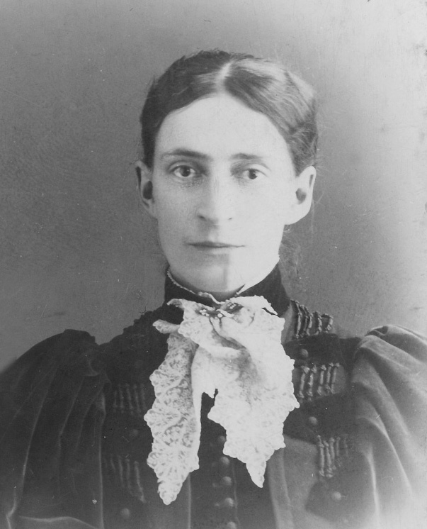 Image of Canadian woman diarist and pioneer Alice Barrett Parke. Courtesy Greater Vernon Museum & Archives. Circa 1897.